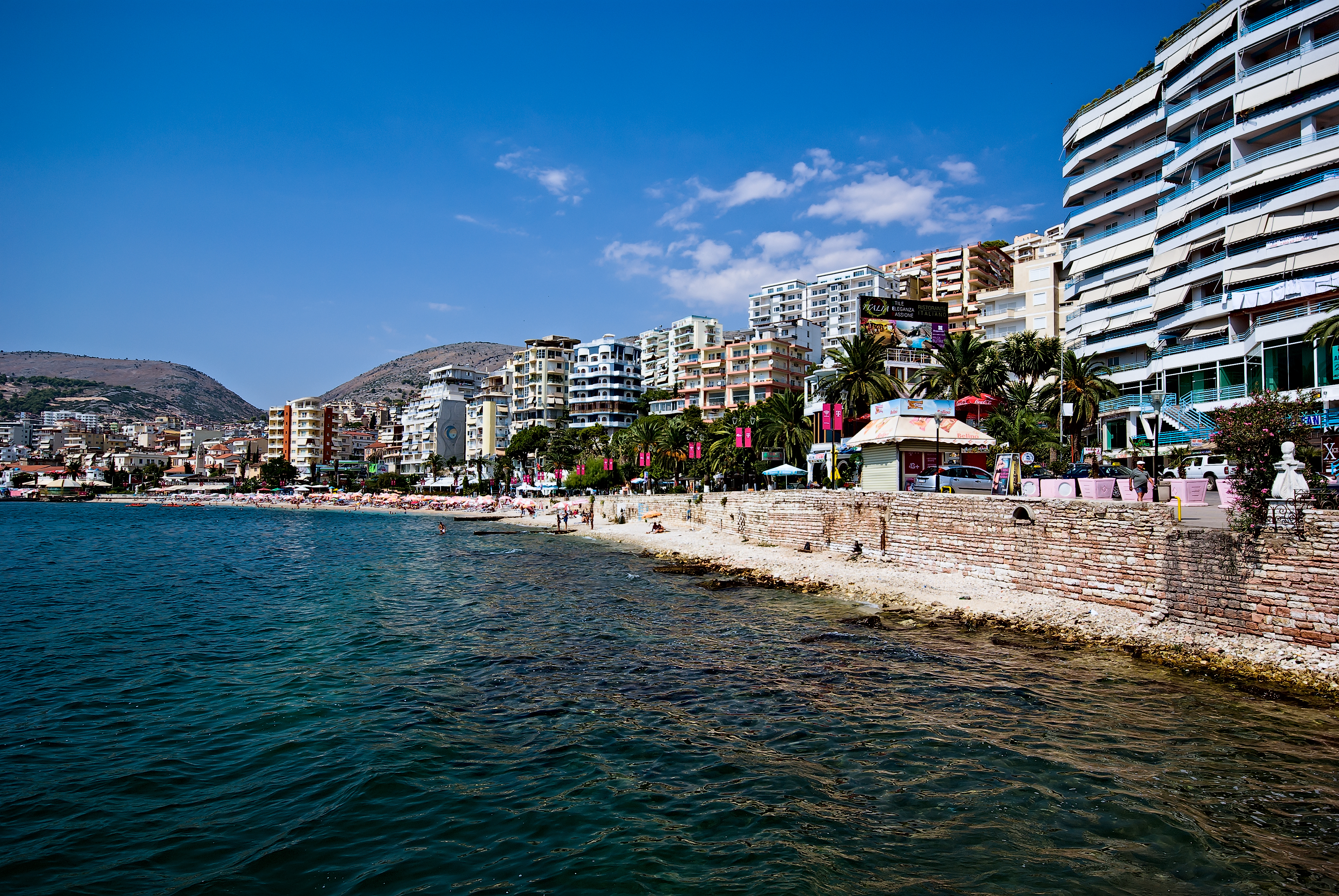 Saranda